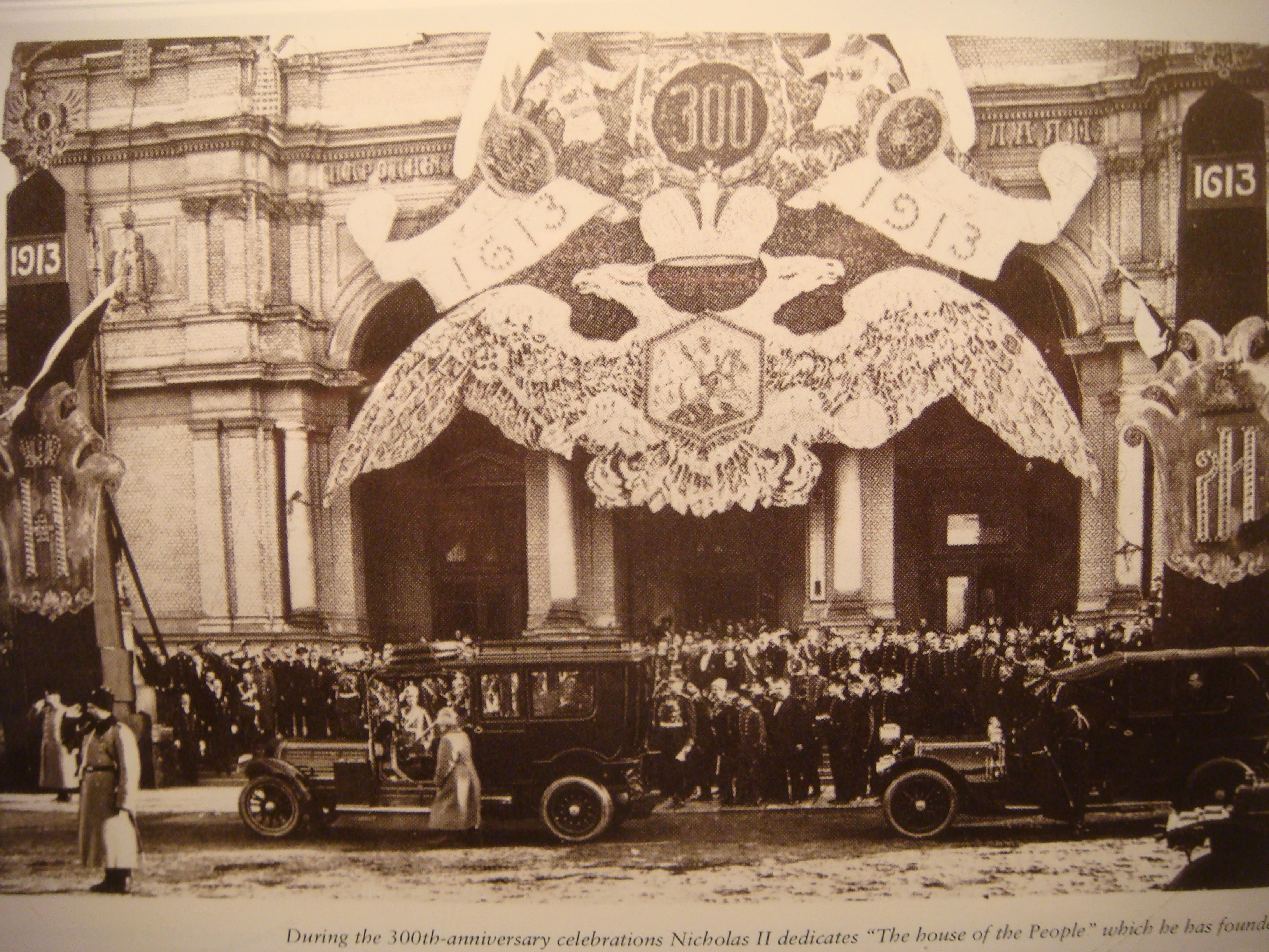 During the 30th anniversary celebrations Nicolas II dedicates «The House of the People» which he has found.